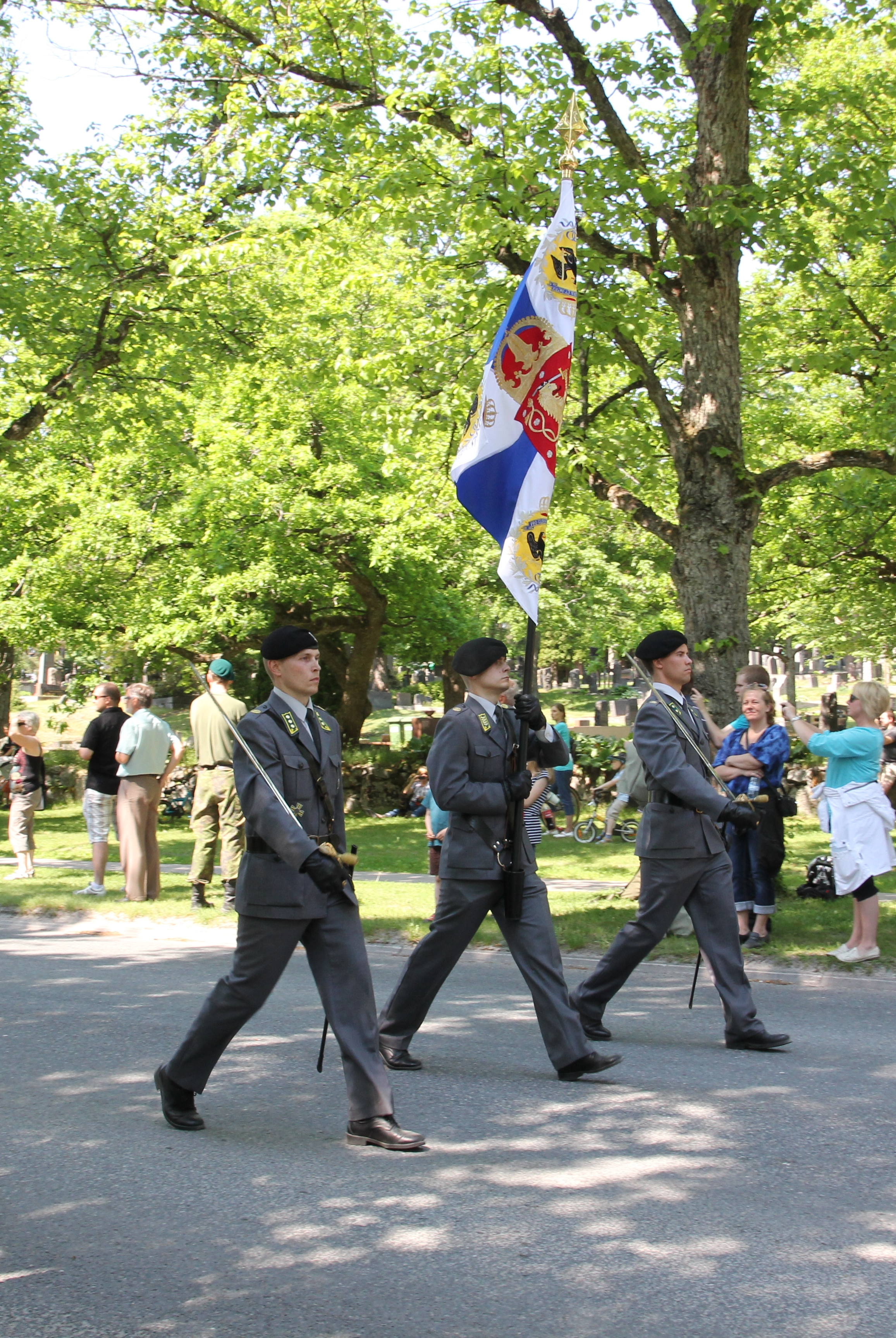 27th Jaeger battalion flag on the second place immediately following the flag of Finland of the Finnish military Flag Day 2013 parade along Raaseporintie road in Tammisaari.